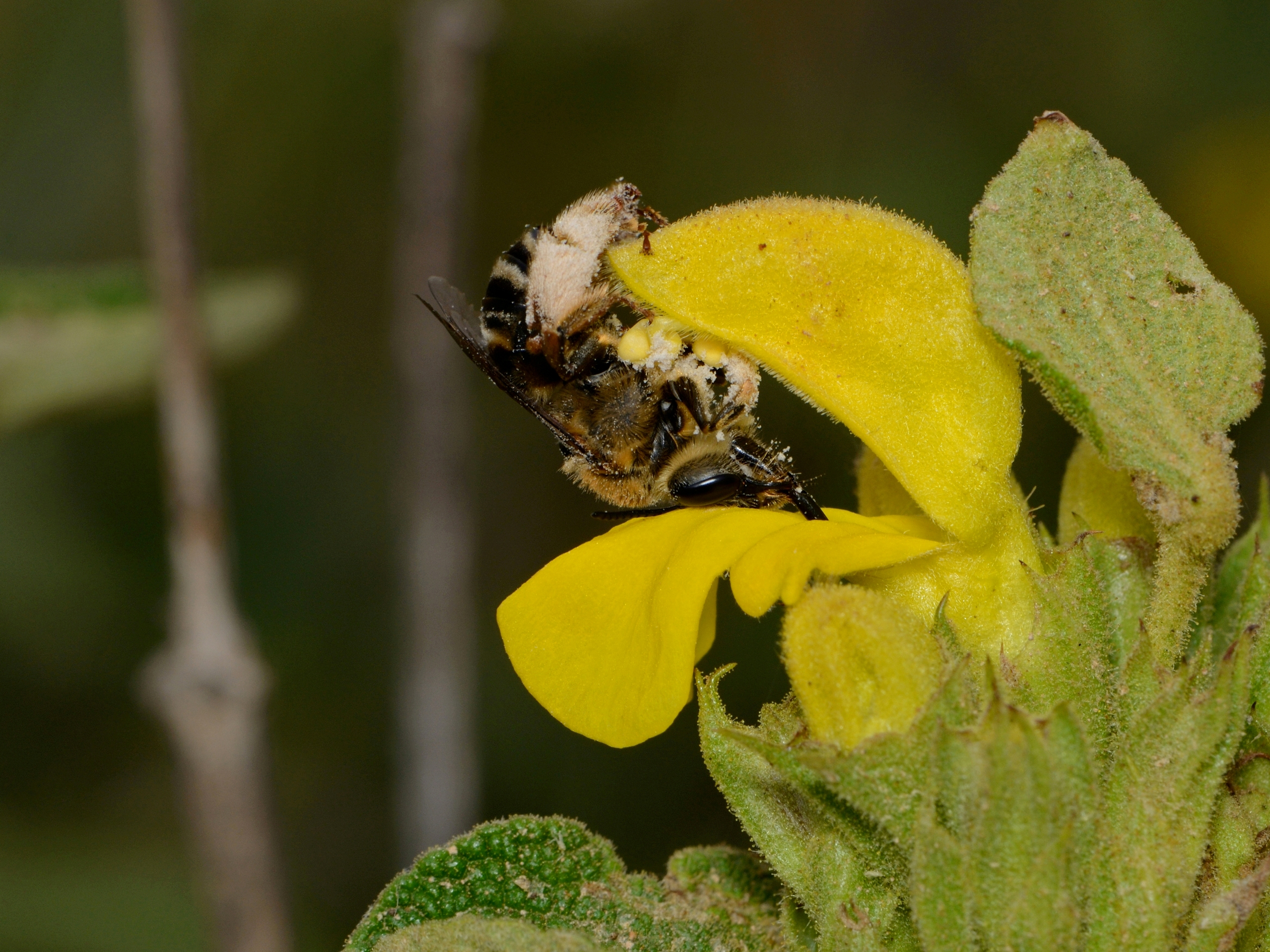 Female wild bee (Eucera plumigera Kohl, 1905) collecting nectar and pollinating a flower of Phlomis viscosa, Mount Carmel, Israel, May 10, 2012.